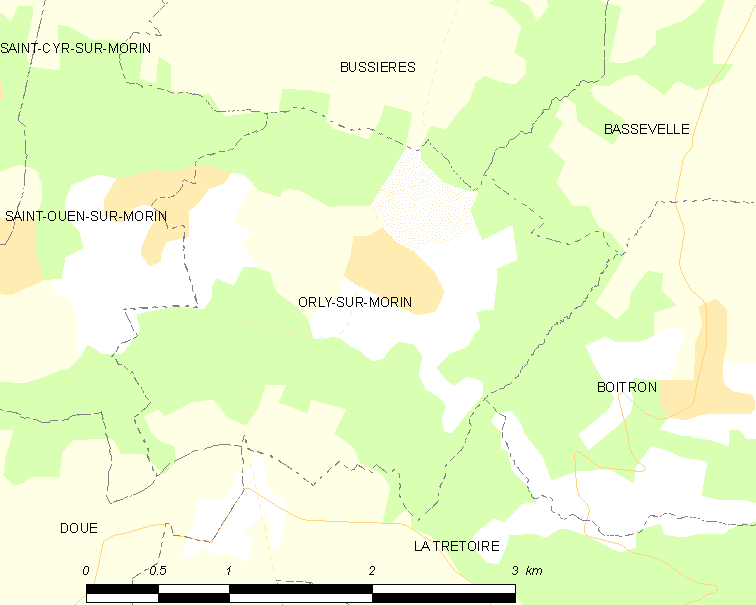 Map of French municipality Orly-sur-Morin